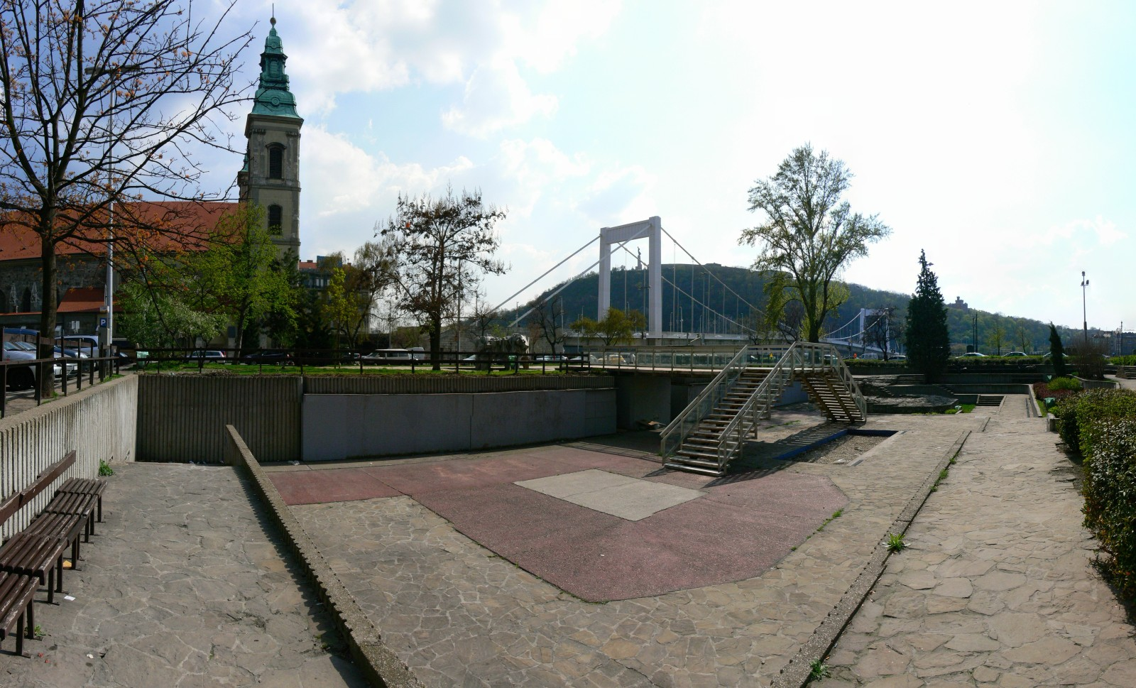 The remains and reconstructed ground plan of the northern gate of the roman fortress Contra Aquincum in Budapest.